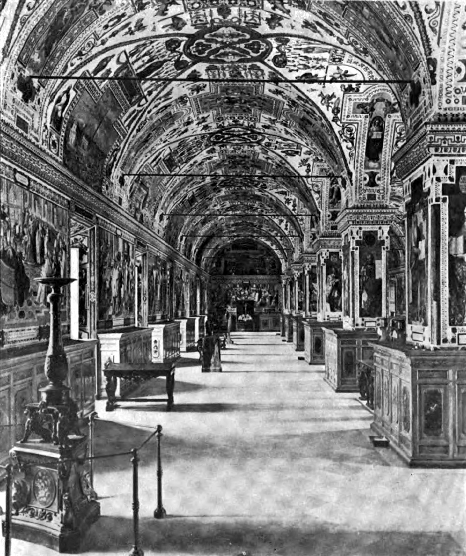 Photograph of the Sistine Hall in the Vatican Library